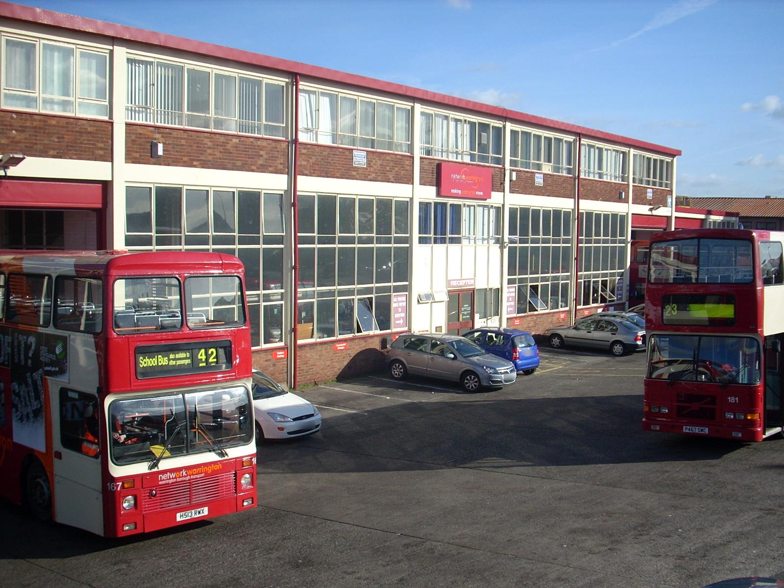 The frontage of Warrington Borough Transport's bus depot on Wilderspool Causeway, Warrington. Leyland Olympian/Northern Counties Palatine 167 on the left is heading out to operate an afternoon school service from Lymm High School, whilst on the right stands former Dublin Bus Volvo Olympian/Alexander 181 after what appears to have been a short stint in public use on service 23 to Cinnamon Brow.